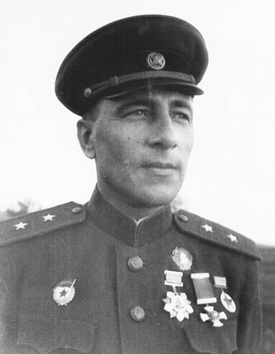 Twice Hero of the Soviet Union Mikhail Yefimovich Katukov